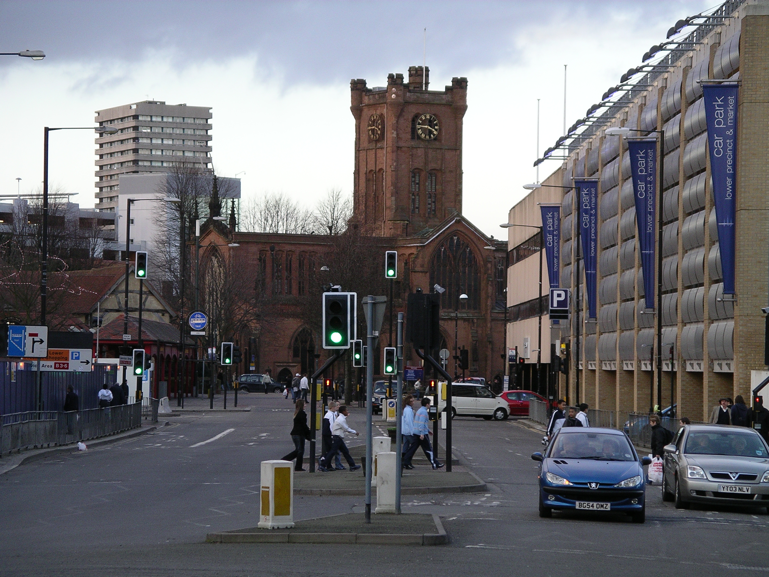 Corporation Street in Coventry, England. The Church of St John the Baptist, of the Church of England, is featured in the background. The view is looking northeast along Corporation Street at approximately opposite the entrance to the City Arcade.